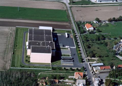 Jánossomorja, Dr. Oetker Factory; Hungary, aerialphotography